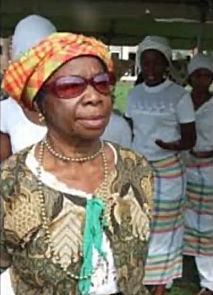 "Ma Elly" Purperhart, Surinamese teacher, actress, and storyteller